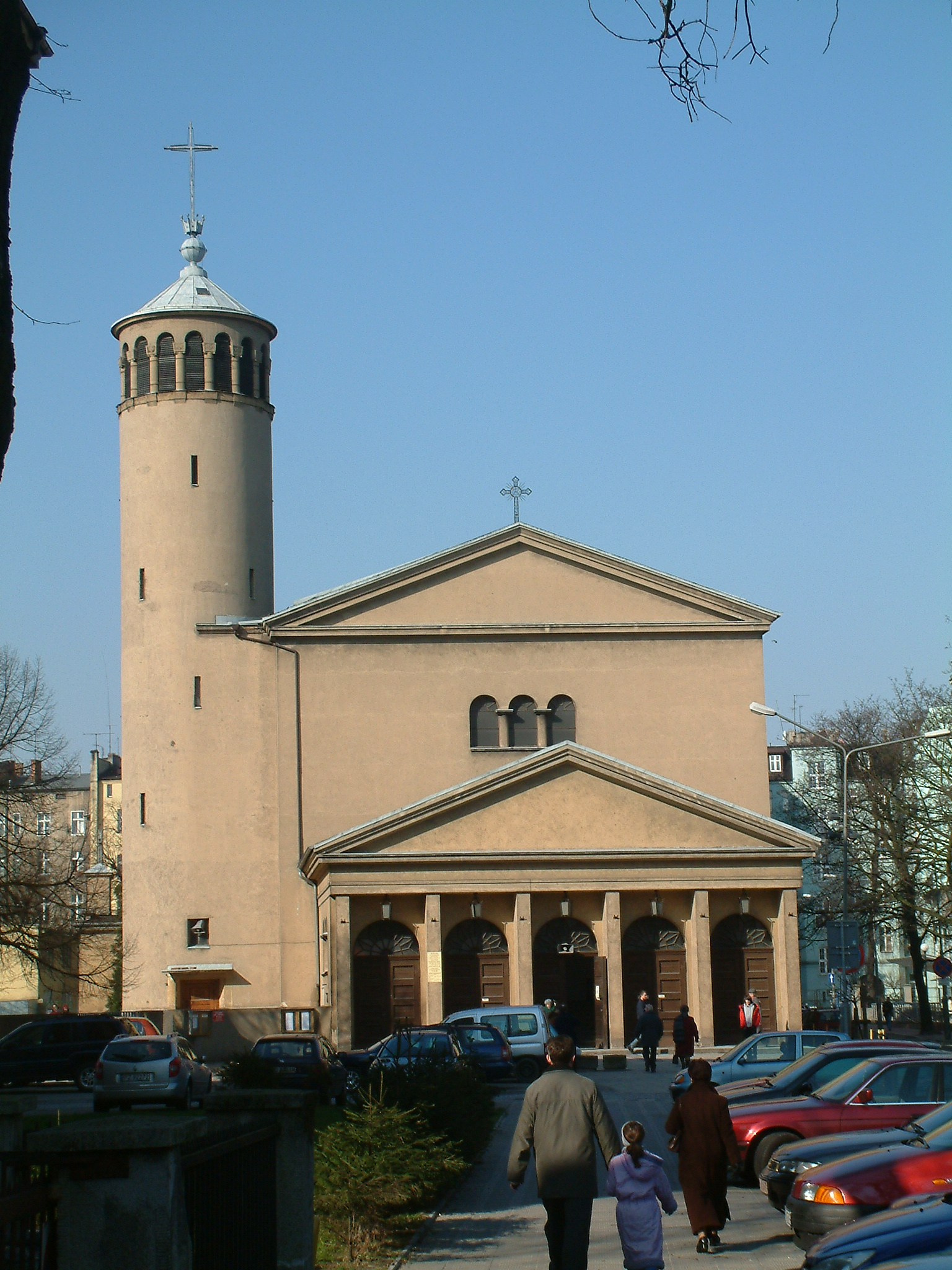 Poznań - Church of St. Michael Archangel